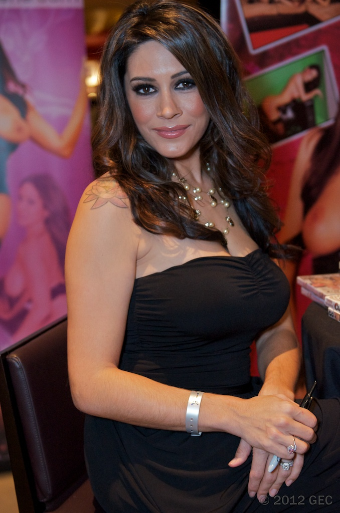 2012 AVN Adult Entertainment Expo (AEE) - Hard Rock Hotel - Las Vegas. © 2012 GEC